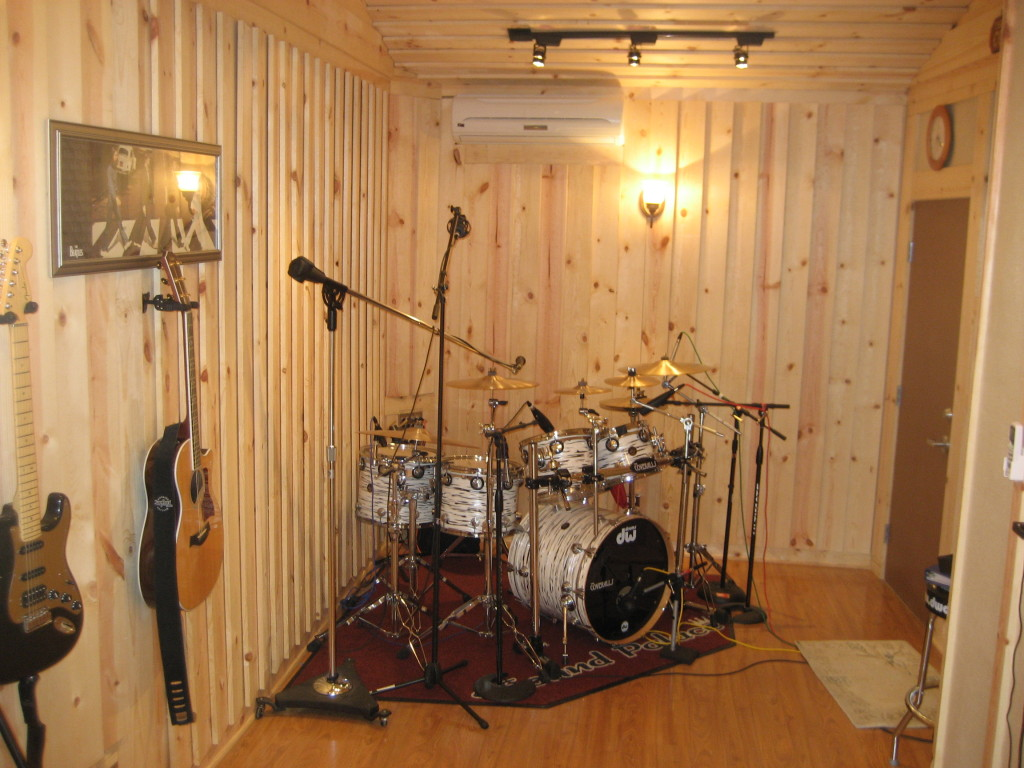 The tracking room at The Sound Palace